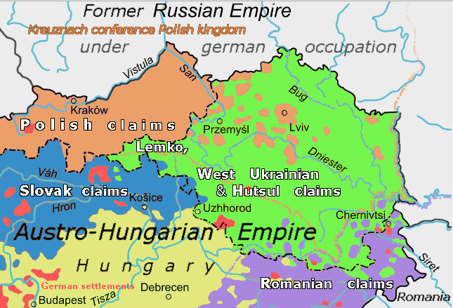 Map of Lemko, West-Ukrainien & Hutsul claims in november and december 1918 according with the sources: The maps Austria hungary 1911.jpg and H.E.Stier (dir.), Grosser Atlas zur Weltgeschichte, Westermann 1985, p. 151, ISBN 3-14-100919-8 for the languages; Bernard Michel, La Chute de l'empire austro-hongrois: 1916-1918, R. Laffont and 1991, 322 p., ISBN 2221069323 Paul Robert Magocsi, A History of Ukraine, University of Toronto Press 1996, ISBN 0-8020-0830-5; Orest Subtelny, Ukraine: A History, University of Toronto Press 1988, ISBN 0-8020-5808-6.